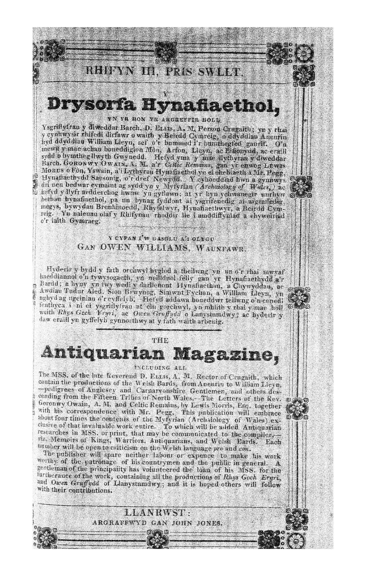 An irregular Welsh language antiquarian periodical that published articles on antiquities and history, alongside early Welsh poetry. The periodical was edited by the antiquarian, Owen Williams (Owen Gwyrfai, 1790-1874).